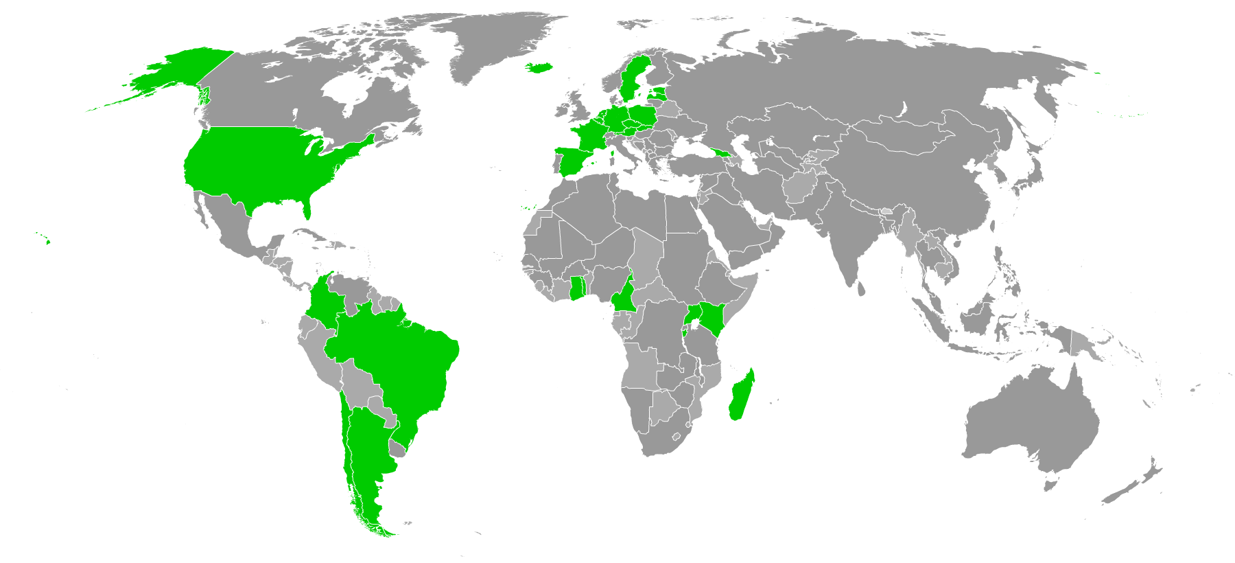 World map showing the countries where the name Sandra is popular. Green color means the name is among the 100 most popular names either in the population or among newborns. Map created using GunnMap and data from multiple sources. This map was created with GunnMapGunnMap was created by Arthur Gunn and is available, free, at and attribute by linking to